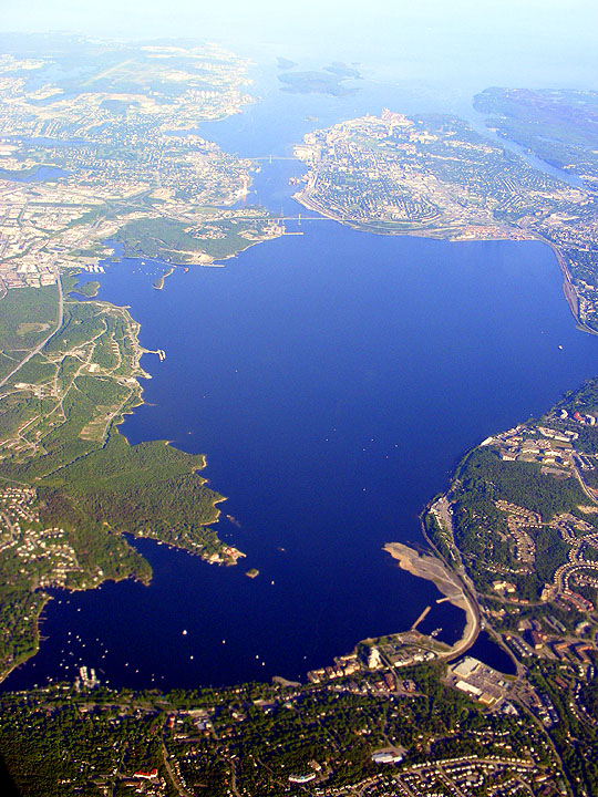 Halifax from the air; looking east[foto -paul Toman